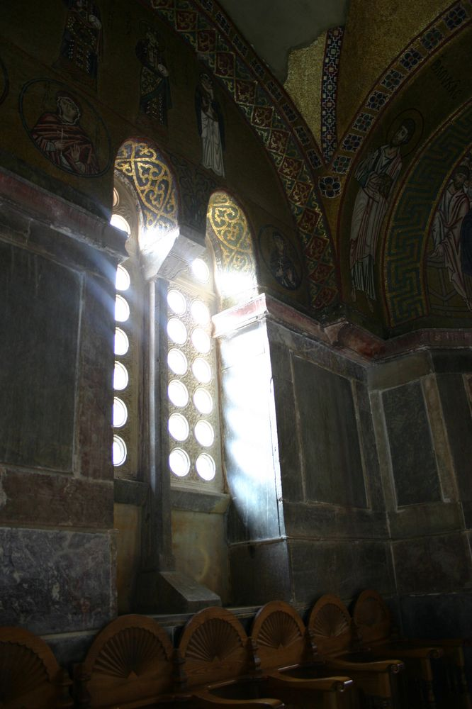 Windows above choir stalls, Church of Hosios Loukas (Greece)